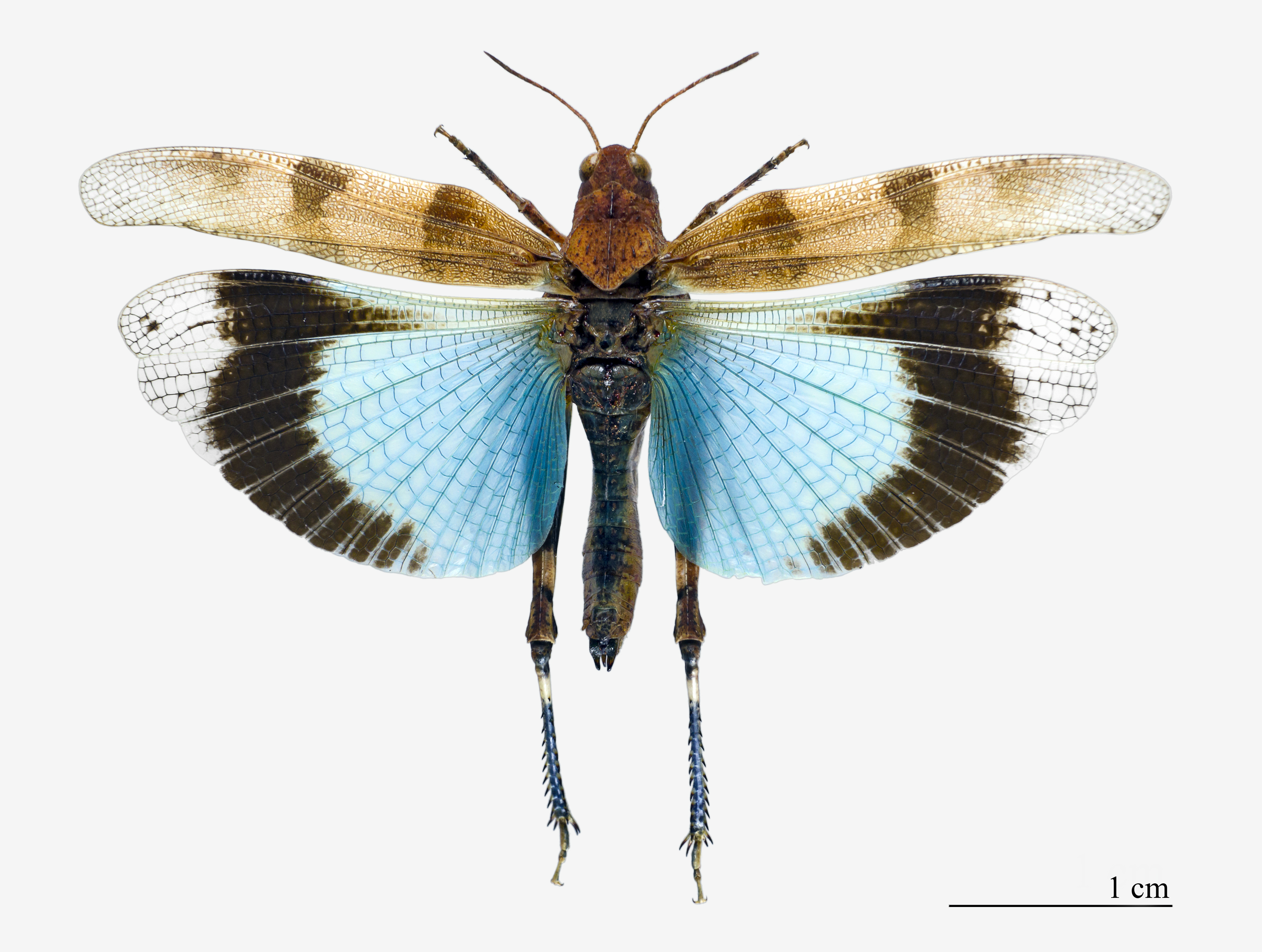 Female - Dorsal side Locality: Maourine pond, Toulouse, France